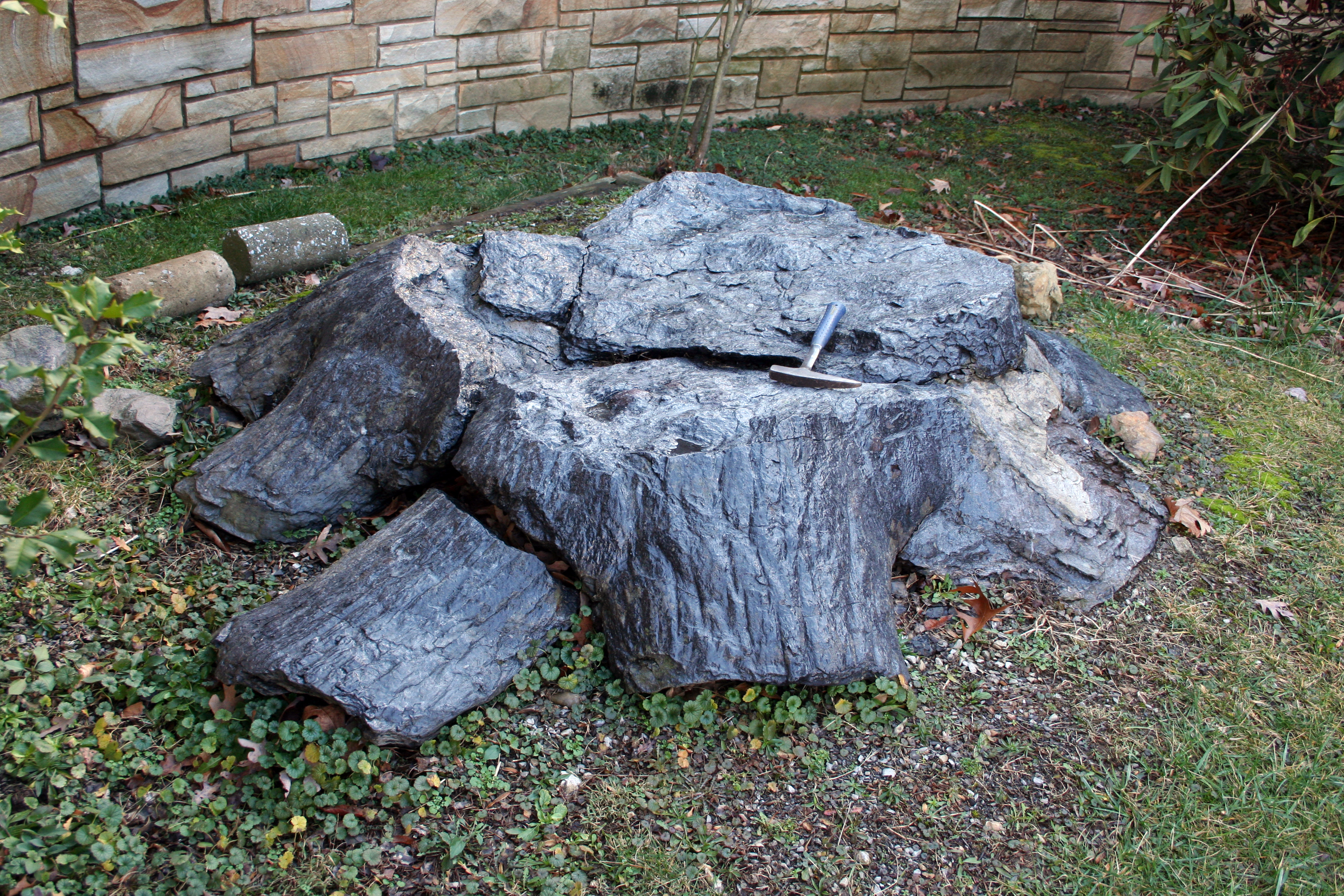 Base of a lycopsid showing connection with bifurcating stigmarian roots. Specimen on display at the West Virginia Geologic Survey.